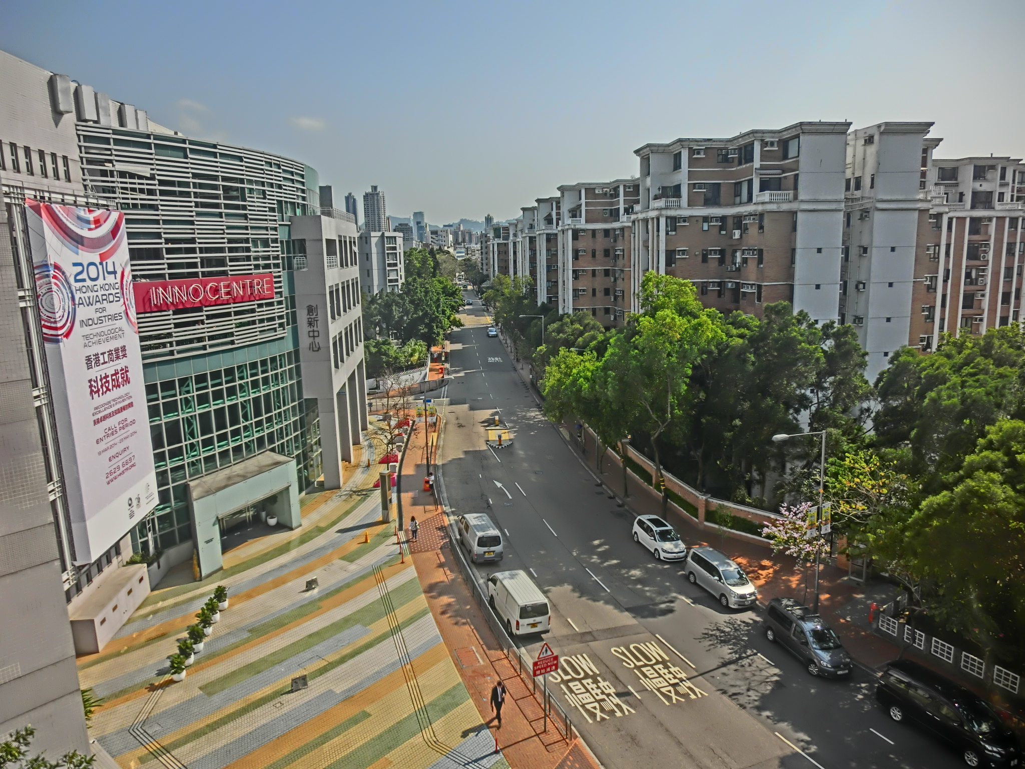 九龍塘, View from HKPC Building, Tat Chee Avenue, Kowloon Tong, Hong Kong